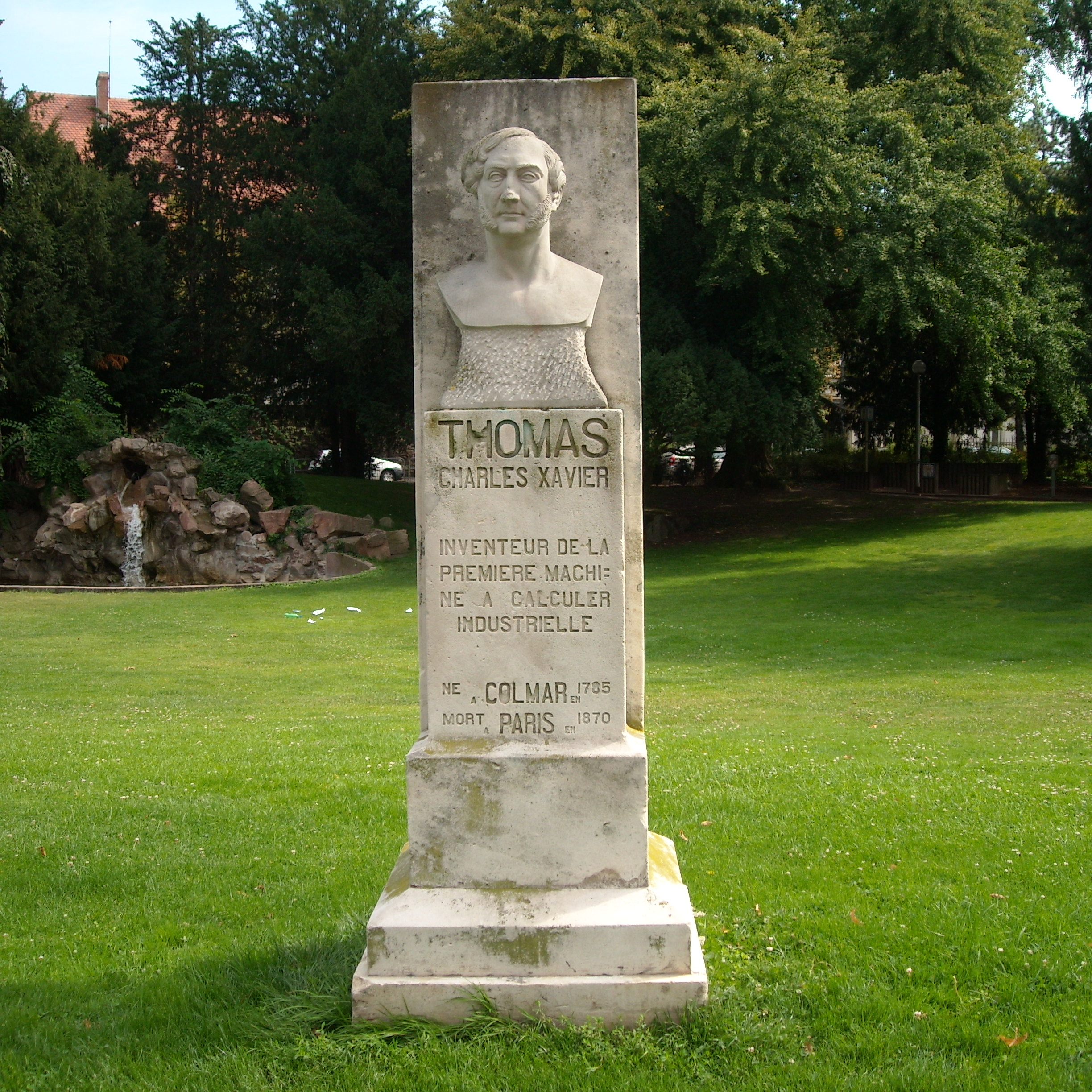 image of the statue of Thomas Charles Xavier